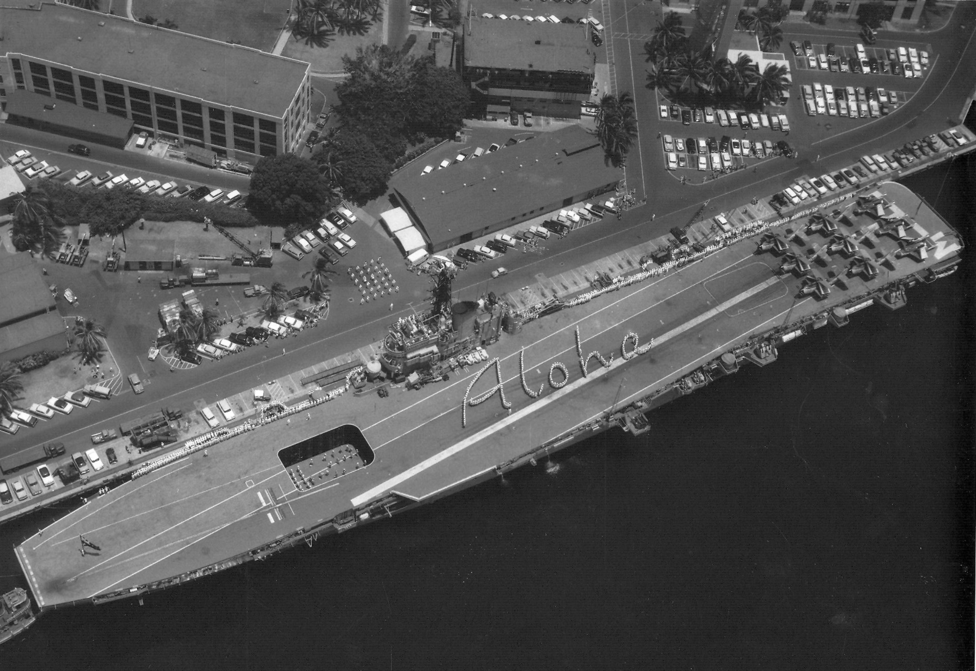 The Australian carrier HMAS Melbourne (R21) moored at Pearl Harbor, Hawaii (USA), her crew spelling out "Aloha" on her flight deck.